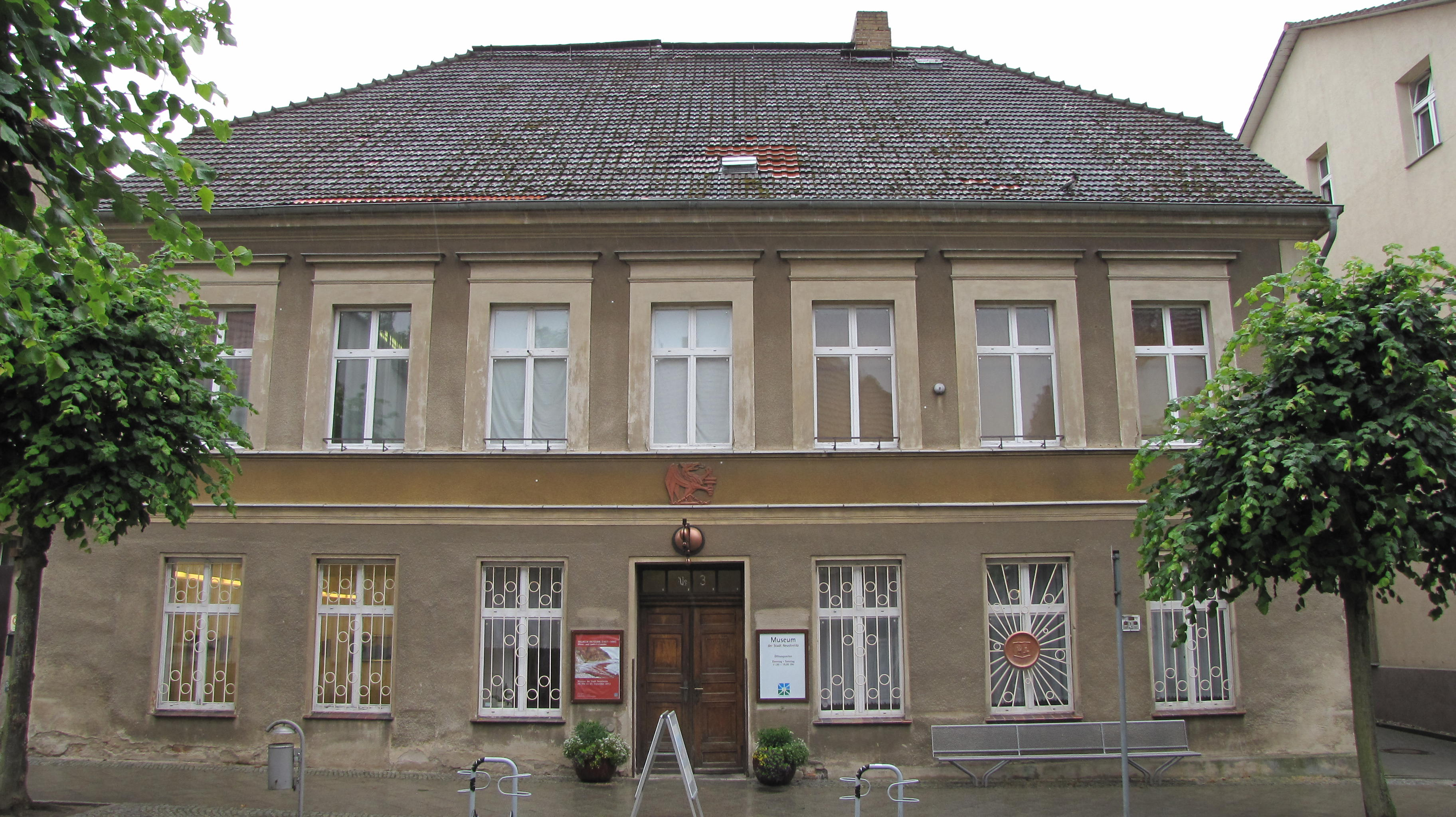 Museum der Stadt Neustrelitz